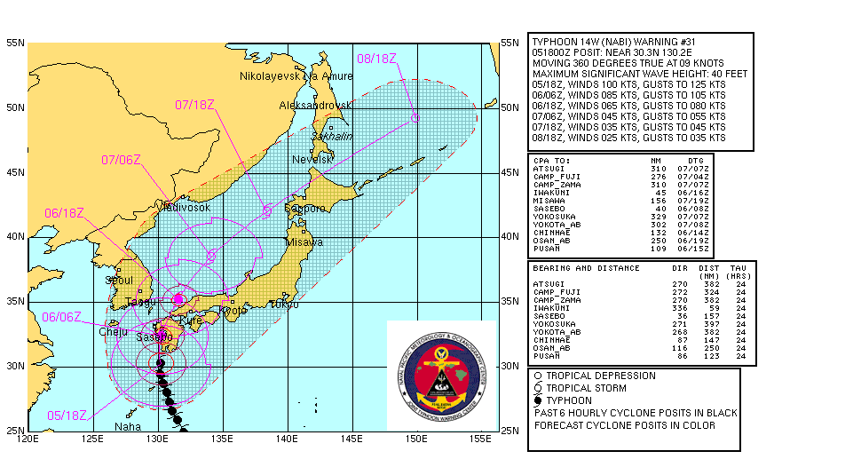 JTWC's tracking chart of Super Typhoon Nabi (Jolina) on September 05, 2005 at 18:00Z. The typhoon is now going exactly to the North and will follow all the western coast of the Japanese Island of Kyushu.